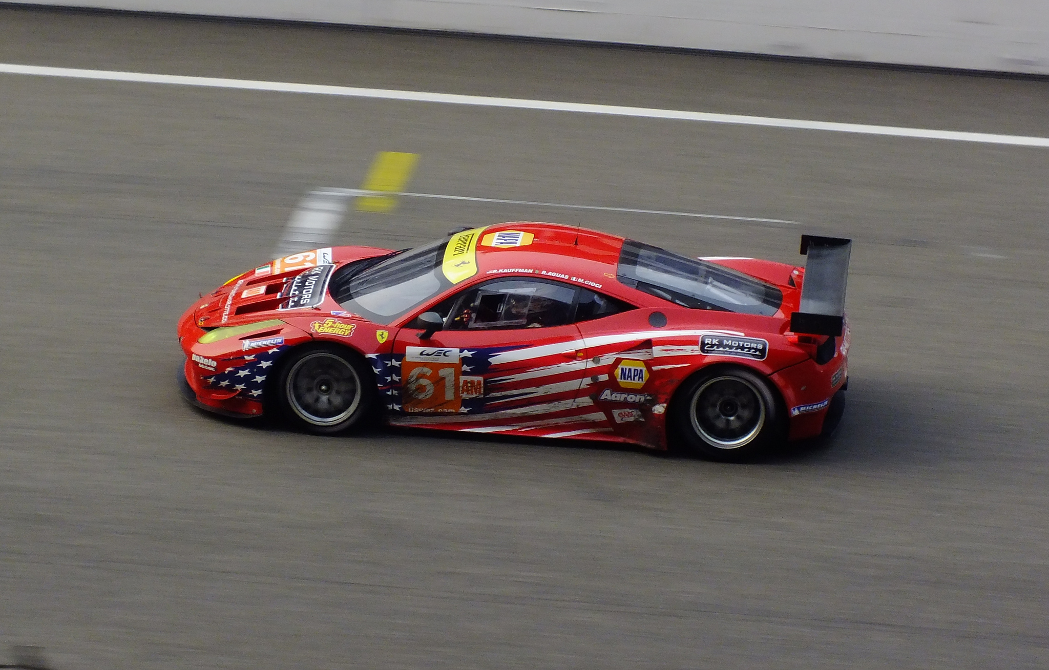 Marco Cioci in the AF Corse-Waltrip Ferrari 458 Italia GTC at the 2012 6 Hours of Shanghai